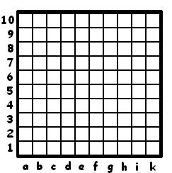 Board of game Virus War